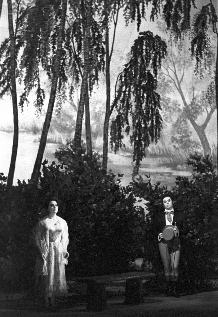 “Tamara Milashkina and Yury Mazurok in scene from opera Eugene Onegin”. Tamara Milashkina and Yury Mazurok in a scene from Pyotr Tchaikovsky opera Eugene Onegin staged at the State Academic Bolshoi Theater of the USSR.